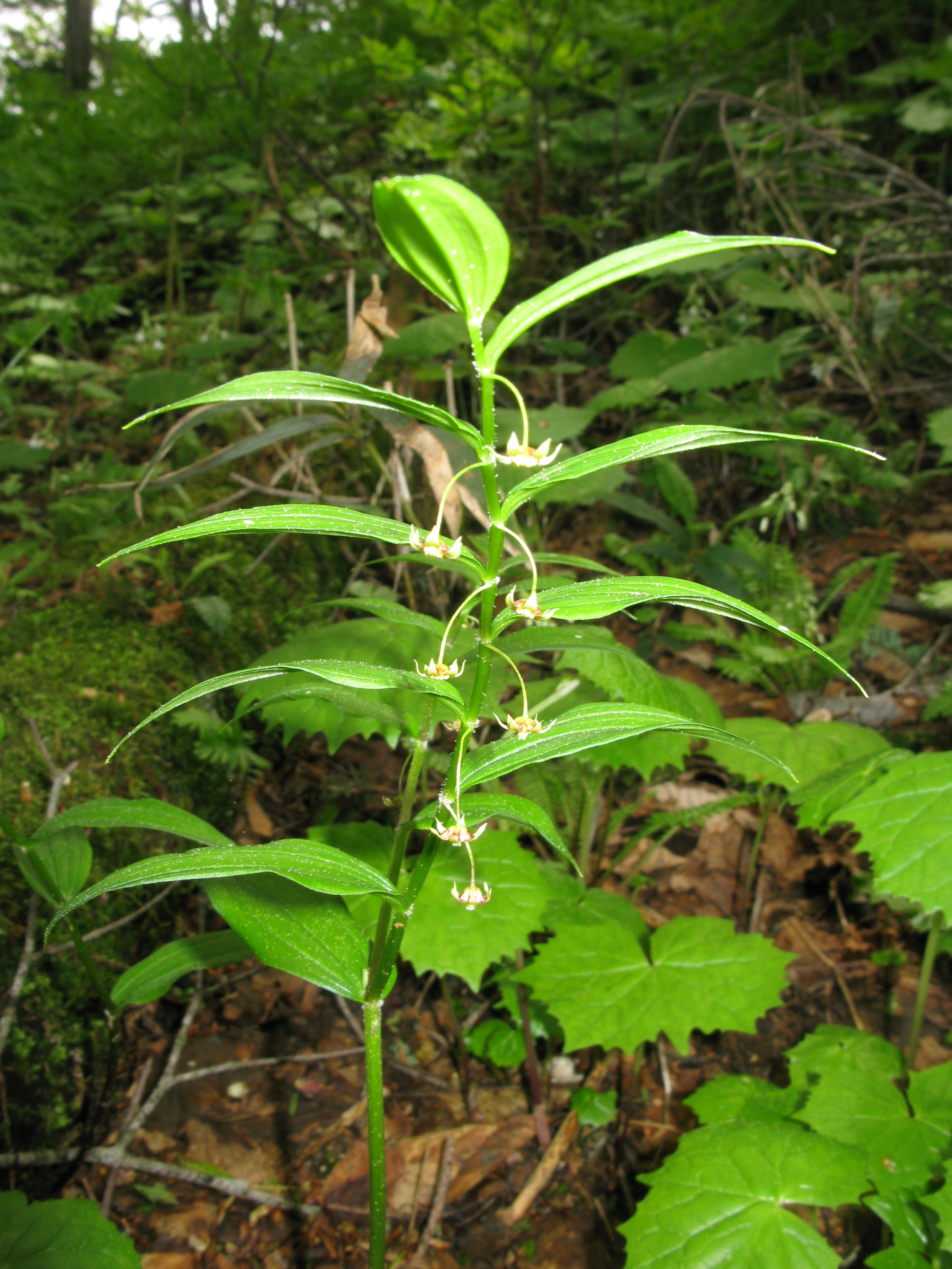 Streptopus streptopoides subsp. japonicus, Aizu area, Fukushima pref., Japan